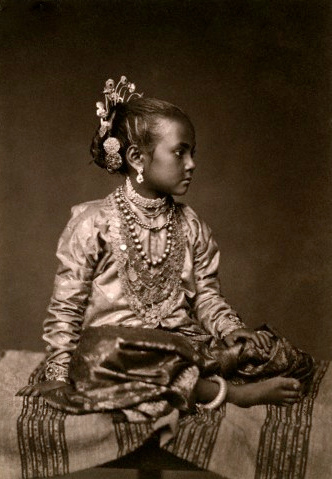 A portrait of a young Tamil girl clad in necklaces